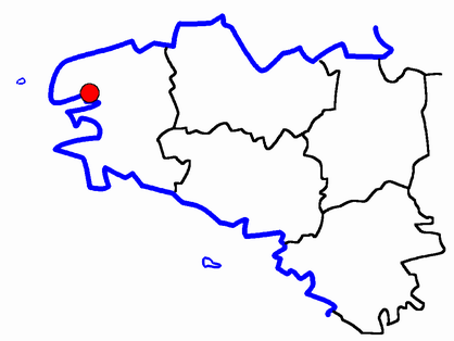 Description: Map for localisazion of cantons of Bretagne region in France Source: made by Hervé Tigier in april 2005 from another large map (published in 1990)